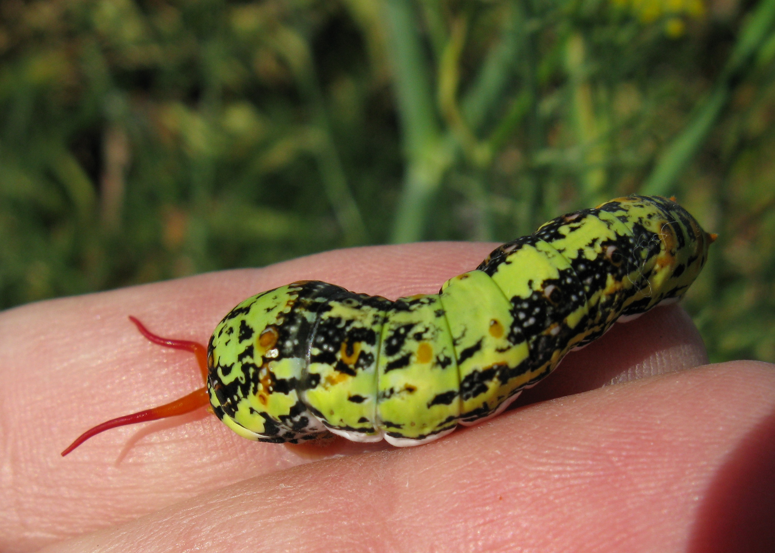 Papilio demodocus larva, final instar, osmeterium extended, applying repugnatorial secretion to finger with one "horn".